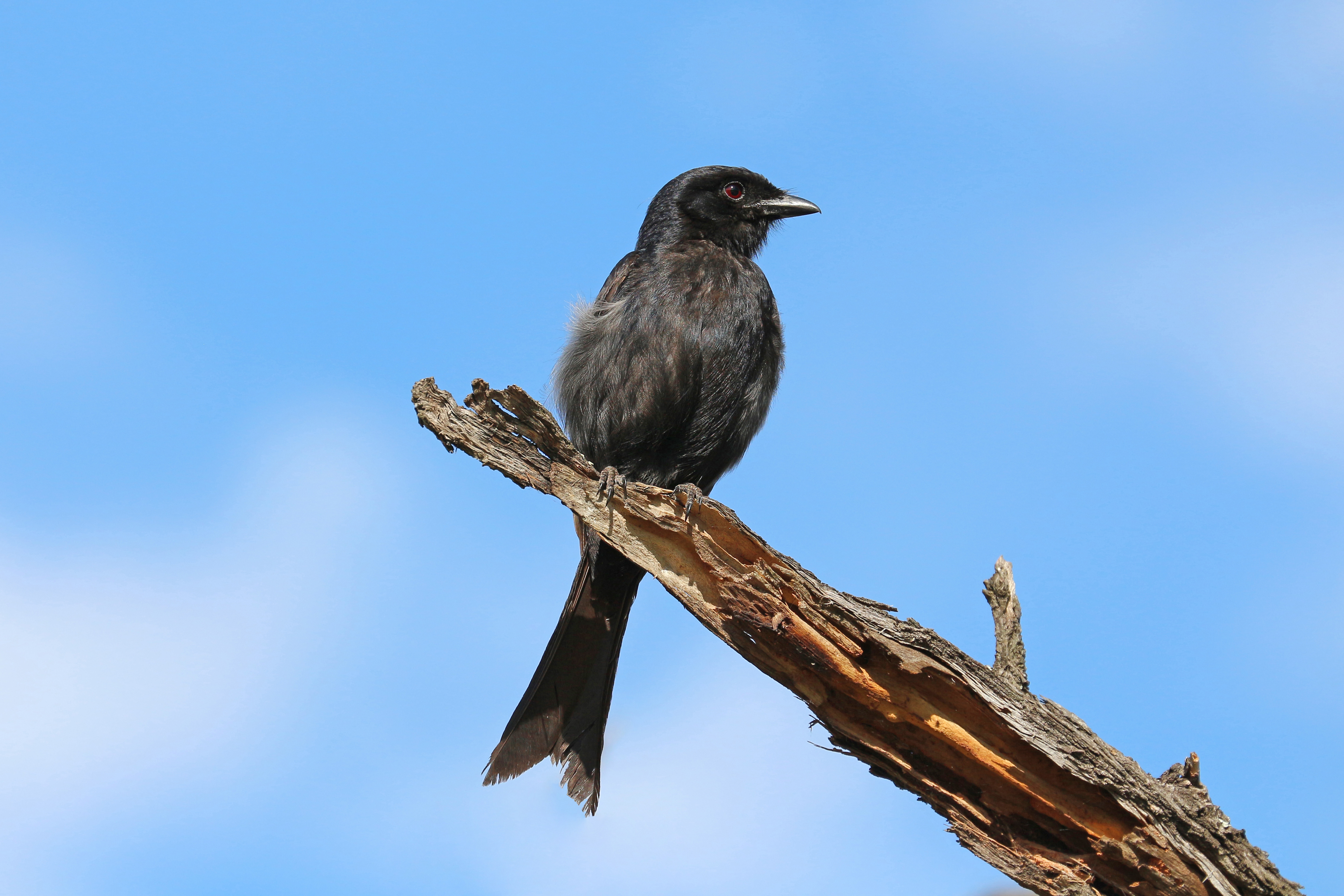 Fork-tailed drongo (Dicrurus adsimilis) on Madlanbantu Trail, Kruger Park, South Africa